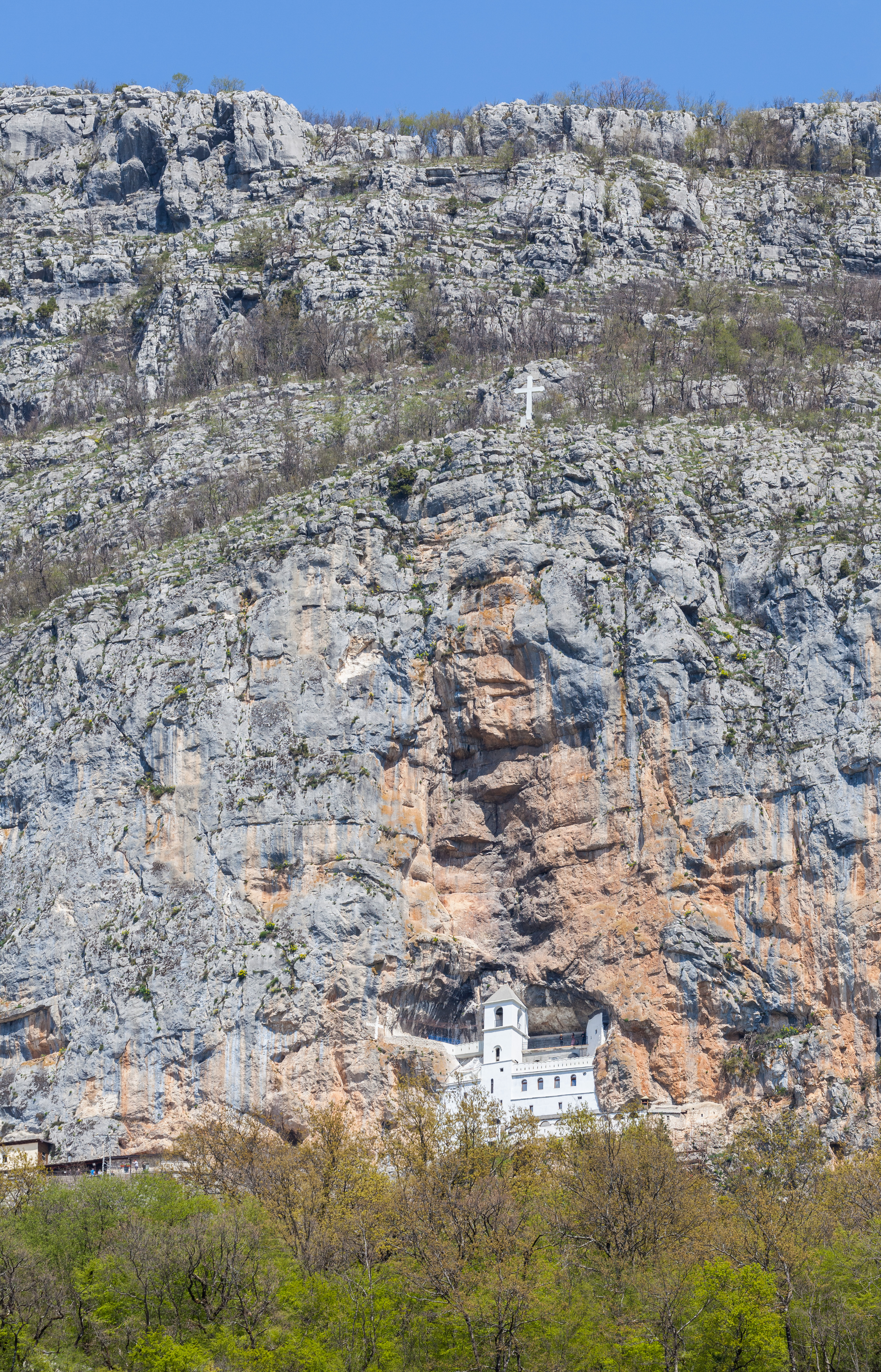 Ostrog monastery, Montenegro